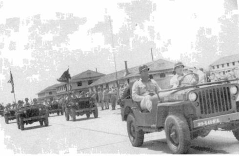 elements of the 141st Field Artillery pass in review during Annual Training, 1950, Fort Polk Lousiana